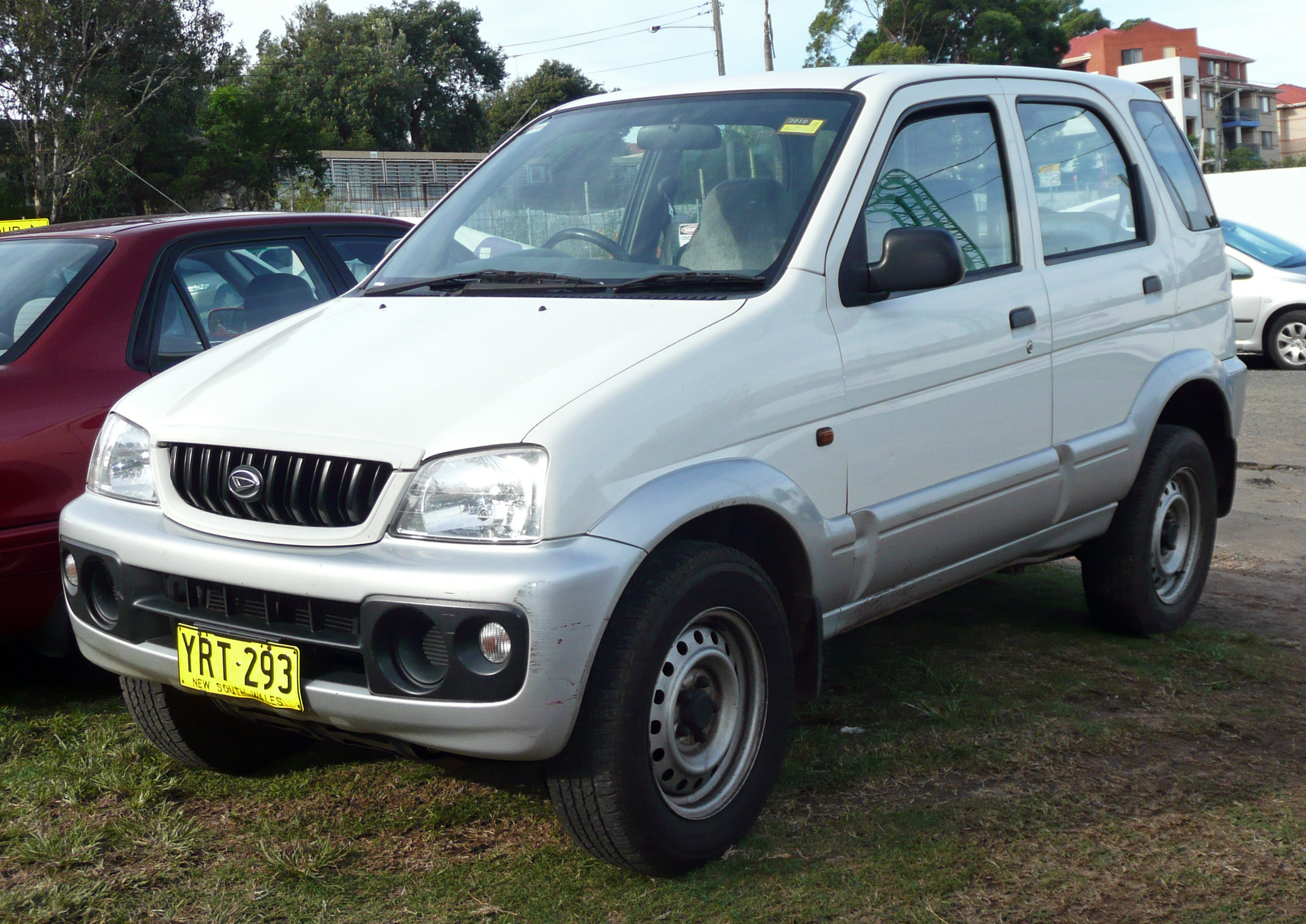 2000–2004 Daihatsu Terios (J102) DX. Photographed in Sutherland, New South Wales, Australia.